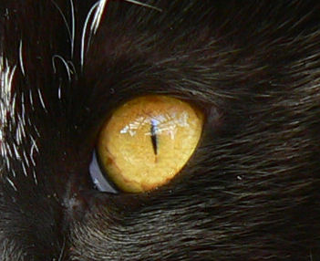 Close up of a cat´s eye